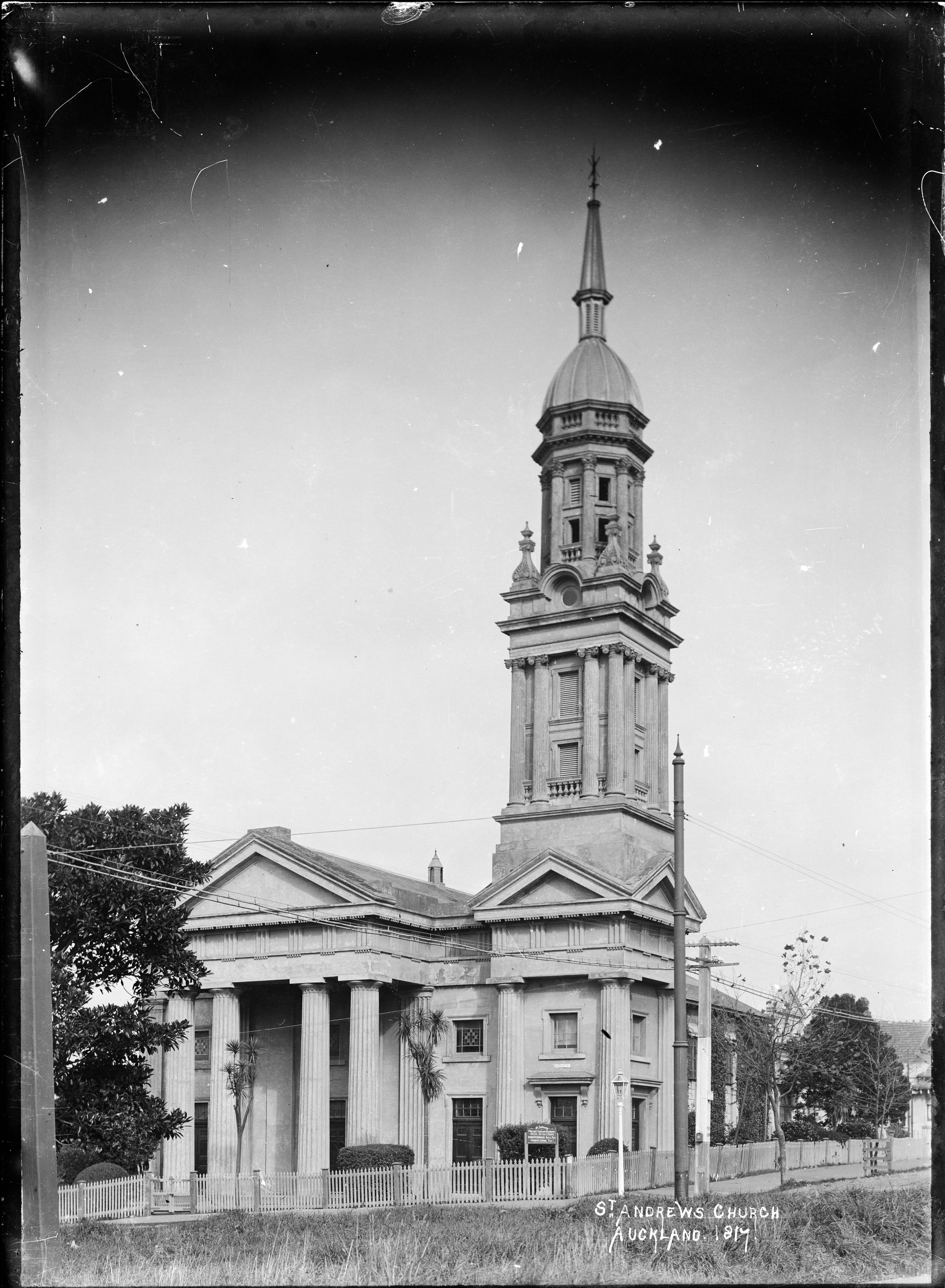 St Andrew's Presbyterian Church, Auckland, between 1900-1930 Reference Number: 1/2-000536-G Photographer: William Archer Price Dry plate glass negative Price Collection, Photographic Archive, Alexander Turnbull Library Find out more about this image on our Manuscripts + Pictorial website